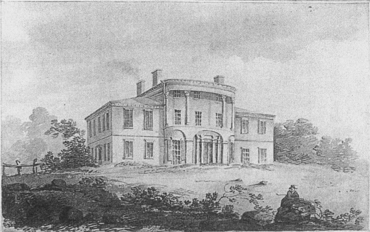 House of Joseph Barrell, Charlestown/Somerville, MA